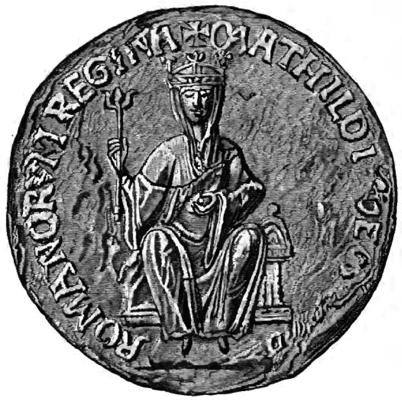 Great Seal of Matilda with the inscription MATHILDIS DEI GRACIA ROMANORUM REGINA.